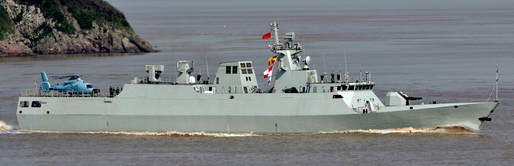 Type 056 corvette